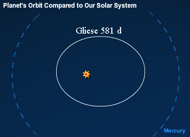 Gliese 581 d's orbit compared to Mercury's orbit (0.38AU) in our Solar System. Gliese 581 is a red dwarf star and thus the habitable zone is closer to the star than in our Solar System.